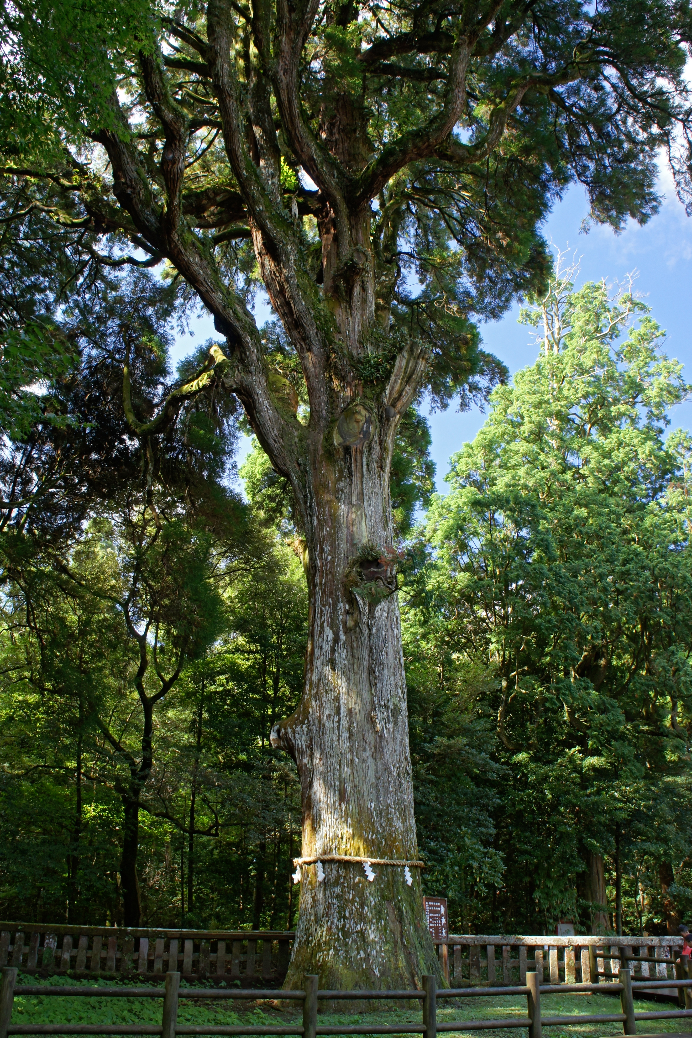 Kirishima-jingu in Kirishima, Kagoshima prefecture, Japan.